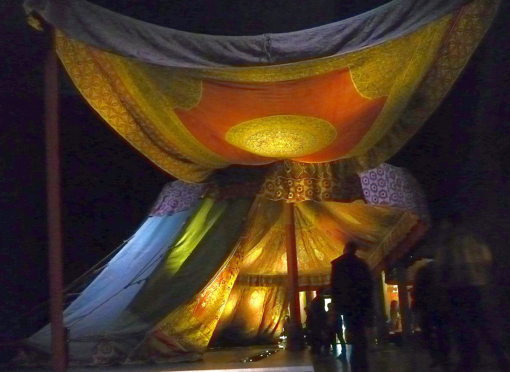 The three-masted tent in the Turkish Chamber